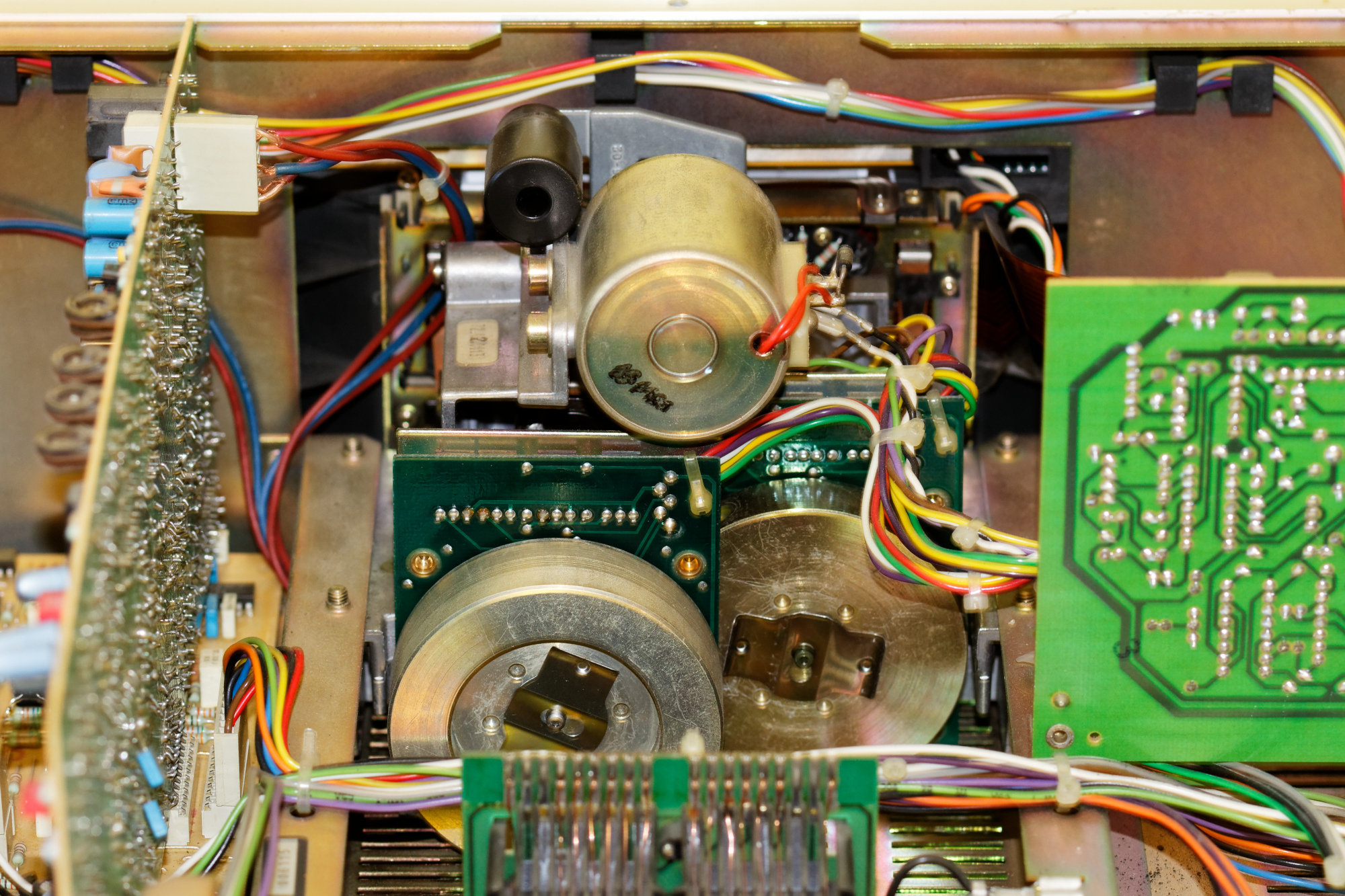 Tape transport of the Revox B215 cassette deck. That's what you got for $2500 thirty years ago. Not anymore, not even close.